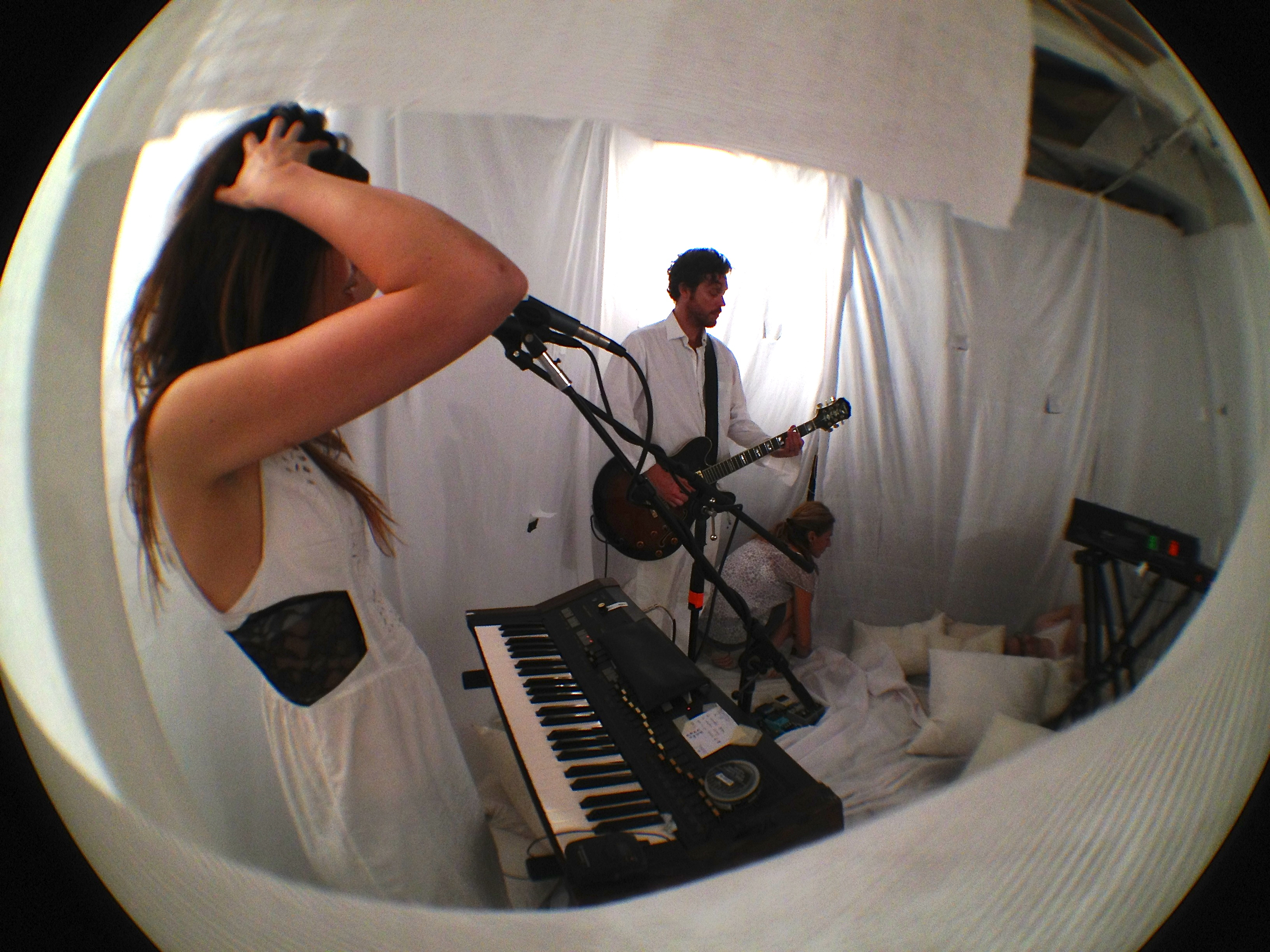 While on a recent US tour supporting M83, Sweden's I Break Horses stopped into Room 205 for a deeply weird live session during a brutal heatwave. It was HOT and they were sick as dogs, so they stripped to their underwear before a single note warbled from their synths. Even so, the vibe created by the white light/white heat/white underwear delivered the first almost-perfect episode of Room 205. Huge thanks to IBH and director Forrest Borie for making it through the wilderness. Enjoy. BIO Welcome to the densely layered world of I Break Horses, the nom de plume of Maria Lindén and musical partner Fredrik Balck. Residing in Stockholm, Sweden, the duo quietly crafted their 2011 debut album Hearts via stolen moments gathered up over a span of three years. Although heavily (and openly) influenced by MBV, Slowdive and Jesus & Mary Chain, I Break Horses is far from an exercise in typical shoegaze fare. Coupled with Lindén's vocal, a gorgeous Scandinavian croon bathed in layers of oceanic reverb and tremelo, and God only knows how many synths, drum pads and ornately effected guitar chords, I Break Horses offers a unique sonic experience unlike anything else you'll soon hear. COMPONENTS Video YouTube: Vimeo: Photos Flickr: Music SoundCloud: CREDITS Executive Producer Incase: Producer Arlie Carstens: Director Forrest Borie: Set Designer Tamarra Younis: Audio Engineer J. Clark: Camera Forrest Borie: Conor Simpson: Jeffrey Peters: Arlie Carstens: Director of Photography Jeffrey Peters: Editor Forrest Borie: Photos Arlie Carstens: Performing Artist I Break Horses: ibreakhorses.se Label Bella Union: Room 205 Theme Song Cora Foxx